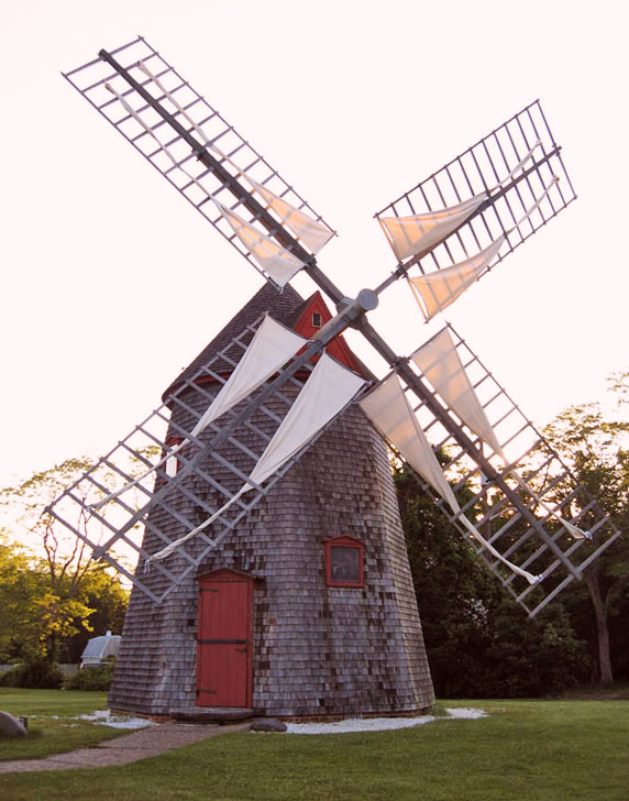 Photograph of the Eastham Windmill taken by me during the sunset of June 15, 2006.